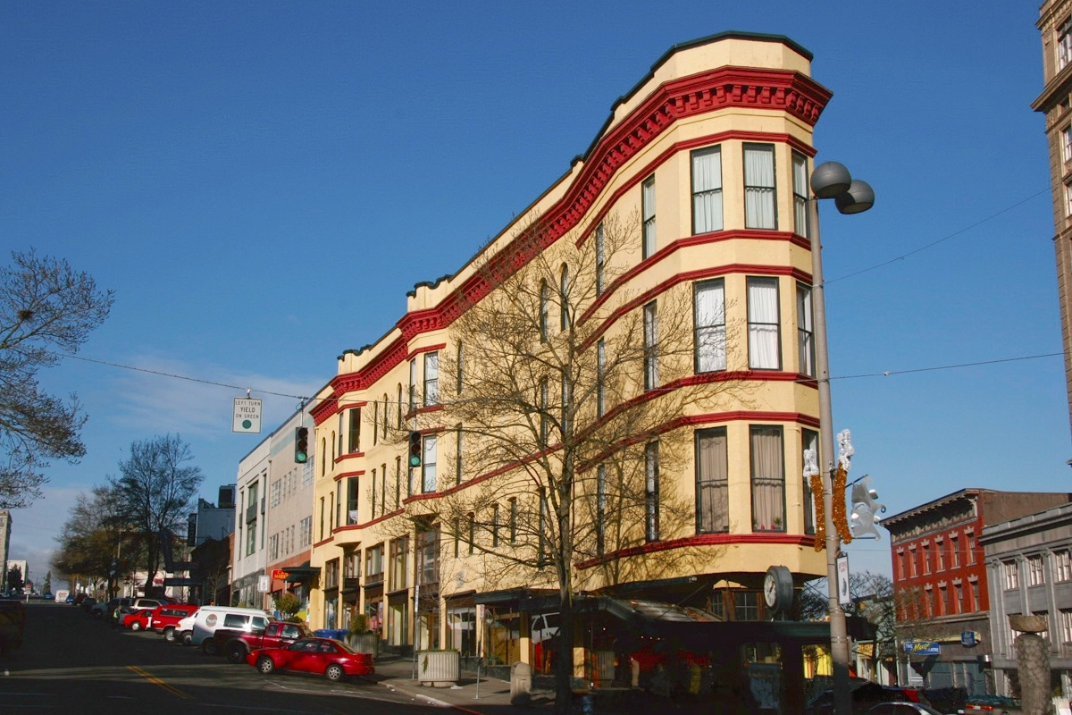 Hotel Bostwick at S 9th and Broadway in downtown Tacoma, Washington, a contributing property to the Old City Hall Historic District.